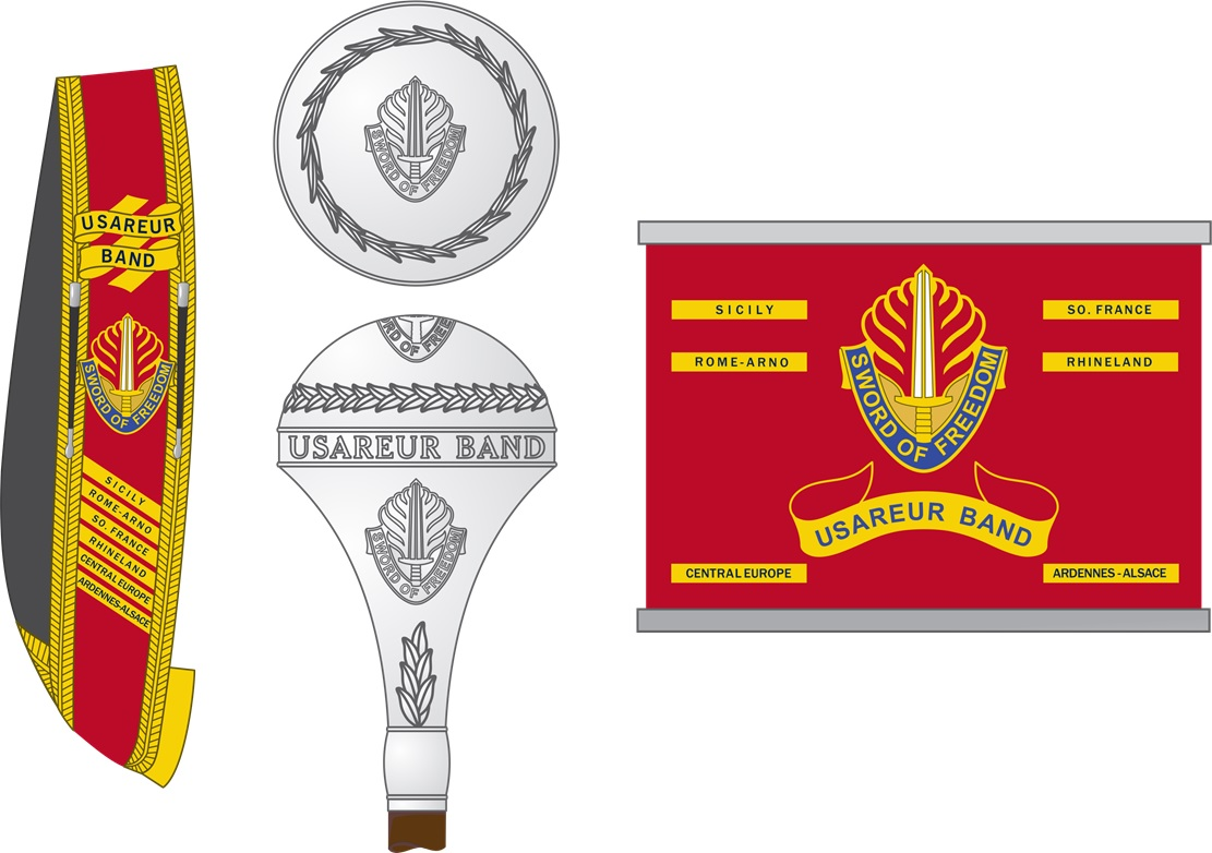 regalia of the USAEUR Band